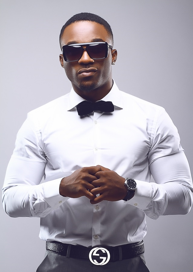 A studio portrait of Iyanya, belonging to TCD Photography